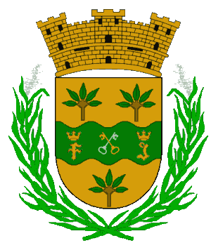 dwqhwar